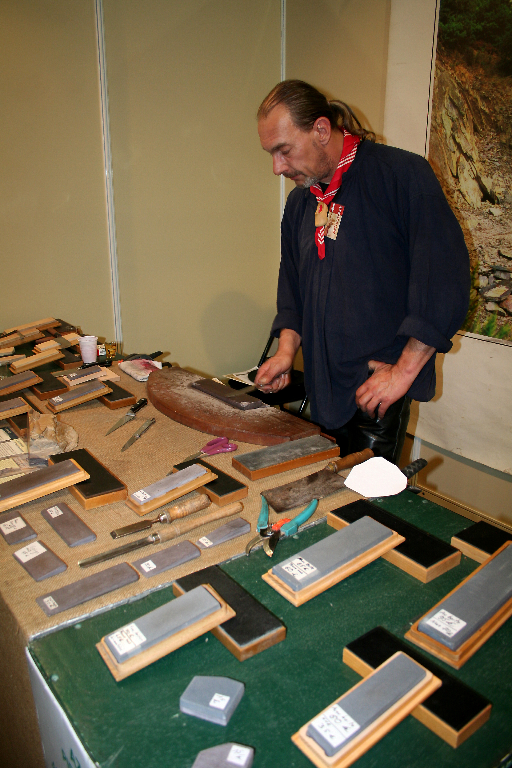 The coticules of Vielsalm merchant - Document published with the agreement of the photographed person (Mr Patrick ZEEVAERT).